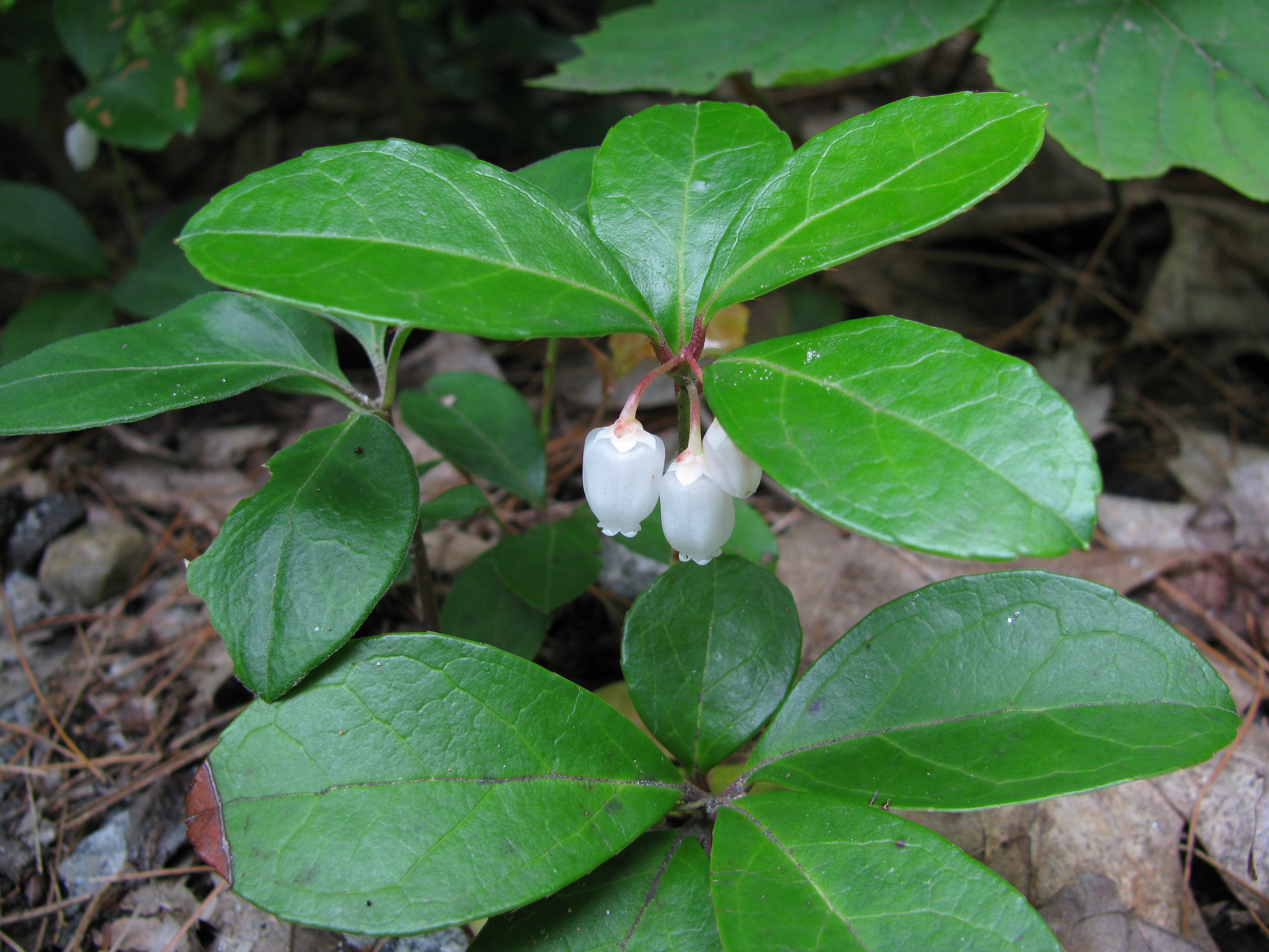 Gaultheria procumbens (Wintergreen) in bloom